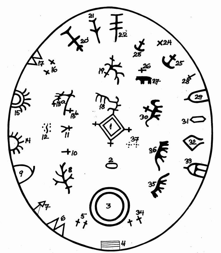 Sami drum from Vefsn/Bindal, Norway; Bindalstromma. Now in Norsk Folkemuseum, Oslo. This picture has numbers to ease identification of the symbols used on the drum